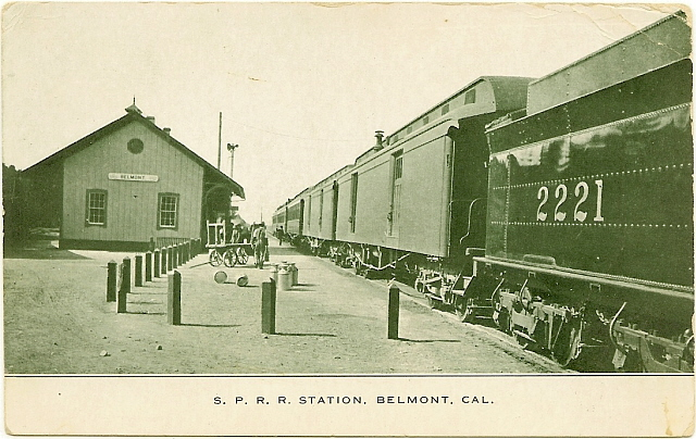 Southern Pacific Railroad station in Belmont from a postcard mailed in 1907; eBay store Web page states: "Caption reads "S.P.P.R. Station - Belmont, Cal". Card is postally used in 1907"